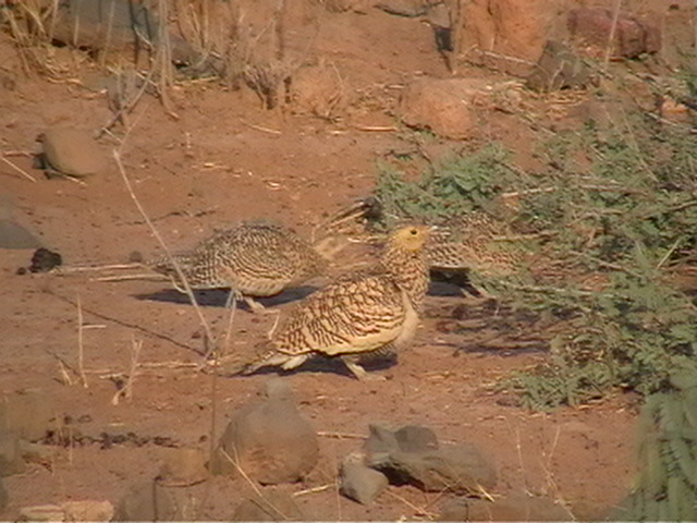 Author: Arpit Deomurari Source: Arpit Deomurari Location: Kutch Species: Chestnut bellied Sandgrouse (Pterocles exustus)